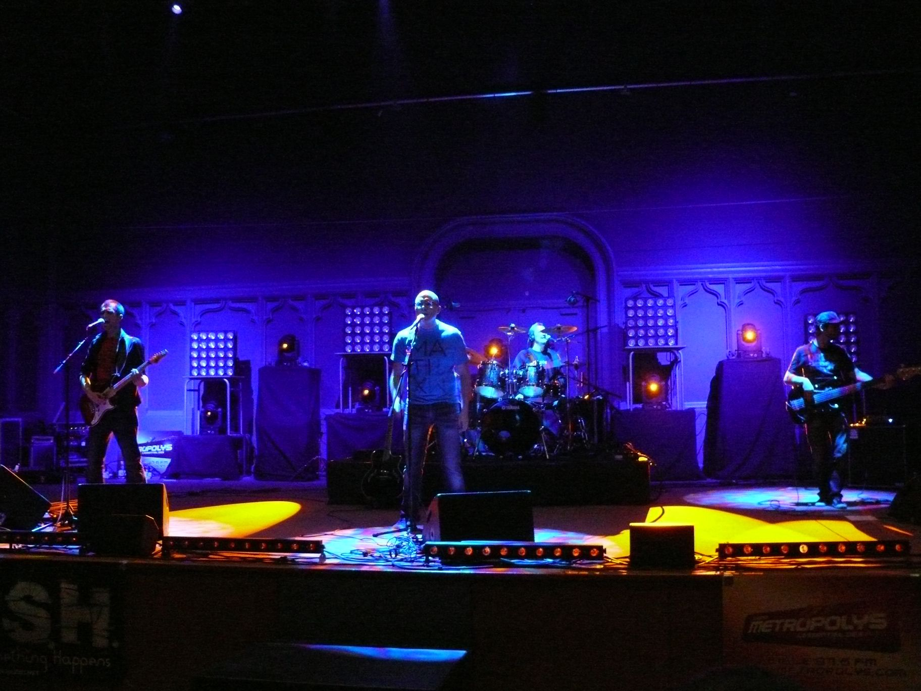 Concert of the Christian rock group P.U.S.H. in Lille (Nord, France).